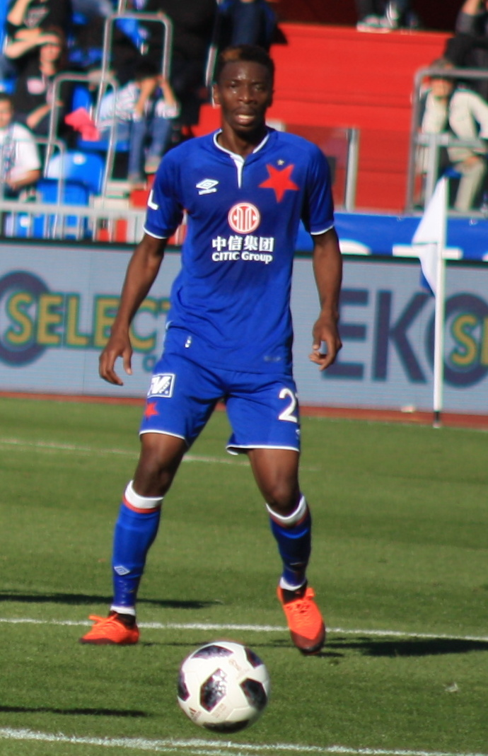 Ibrahim Benjamin Traoré At Czech First League (Fortuna Liga) match FC Baník Ostrava-SK Slavia Praha played on 30. 9. 2018